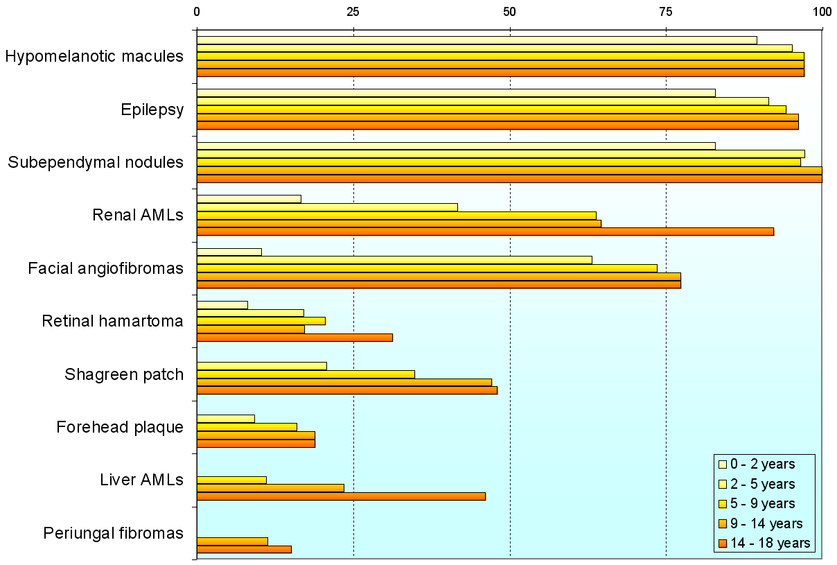 A chart showing the frequency of clinical signs of Tuberous Sclerosis Complex, grouped by age in childhood.